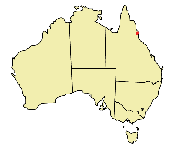 Cairns locator